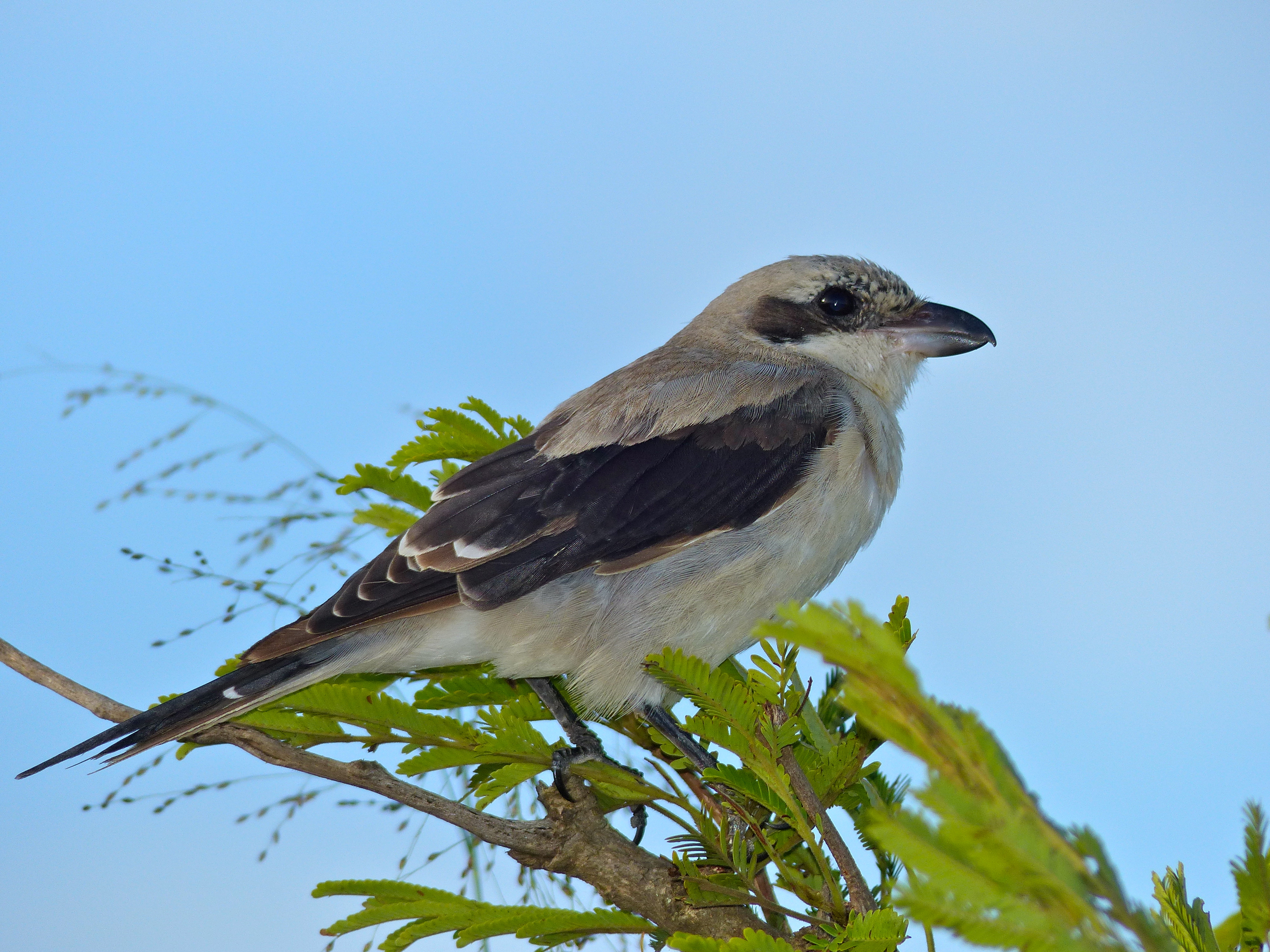 H10 Road North of Lower Sabie, Kruger NP, SOUTH AFRICA